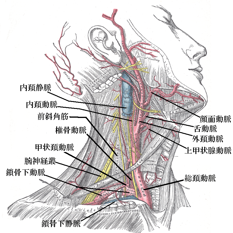 This file was made by "Subclavius 1st part.png" in Wikimedia Commons.